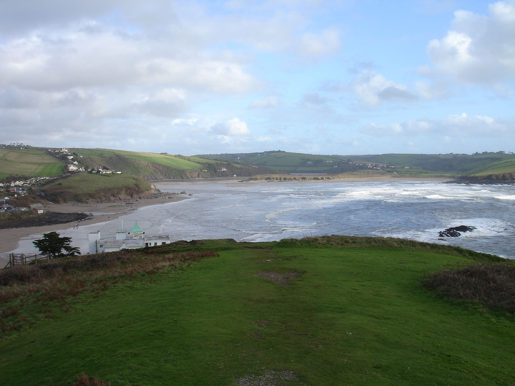 Panorama view on Burgh Island, Devon, England